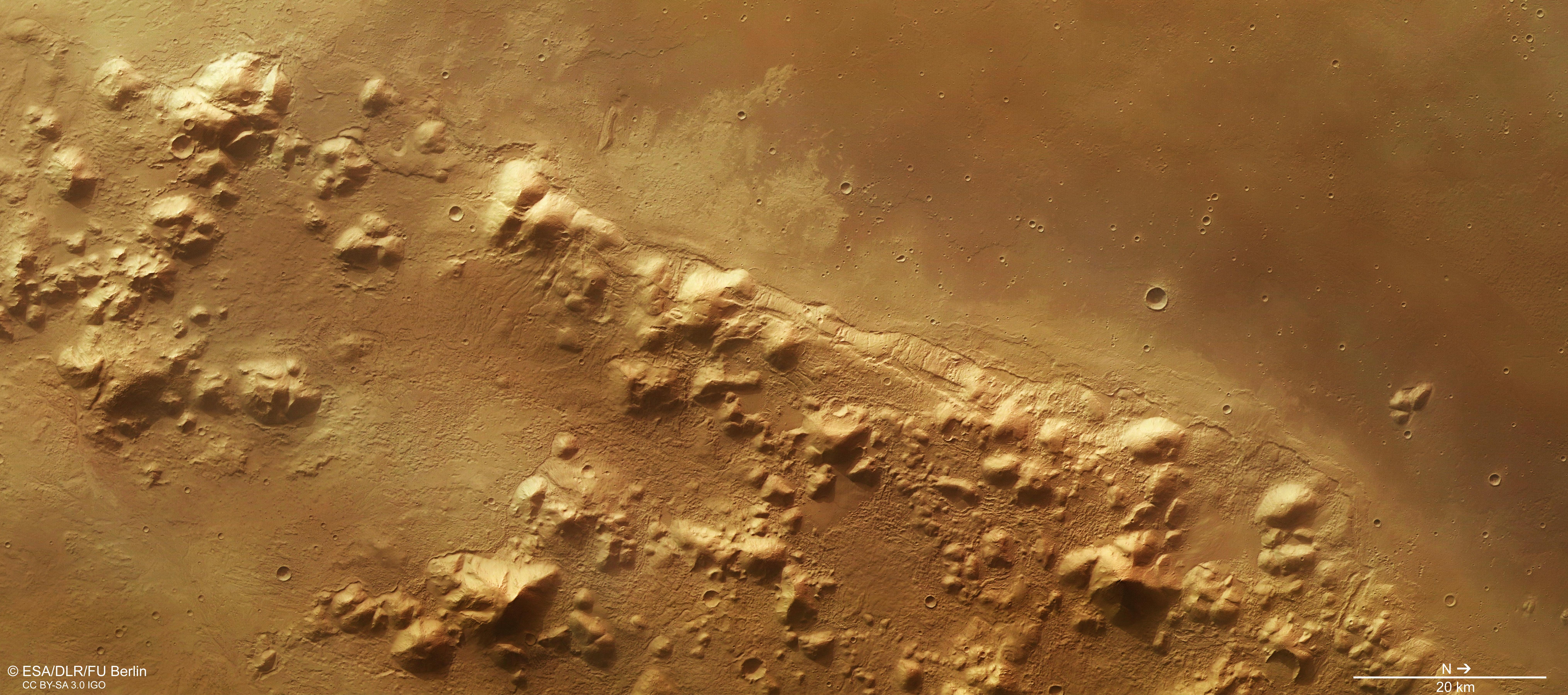 The southern tip of Phlegra Montes on Mars imaged by the HRSC instrument aboard Mars Express.